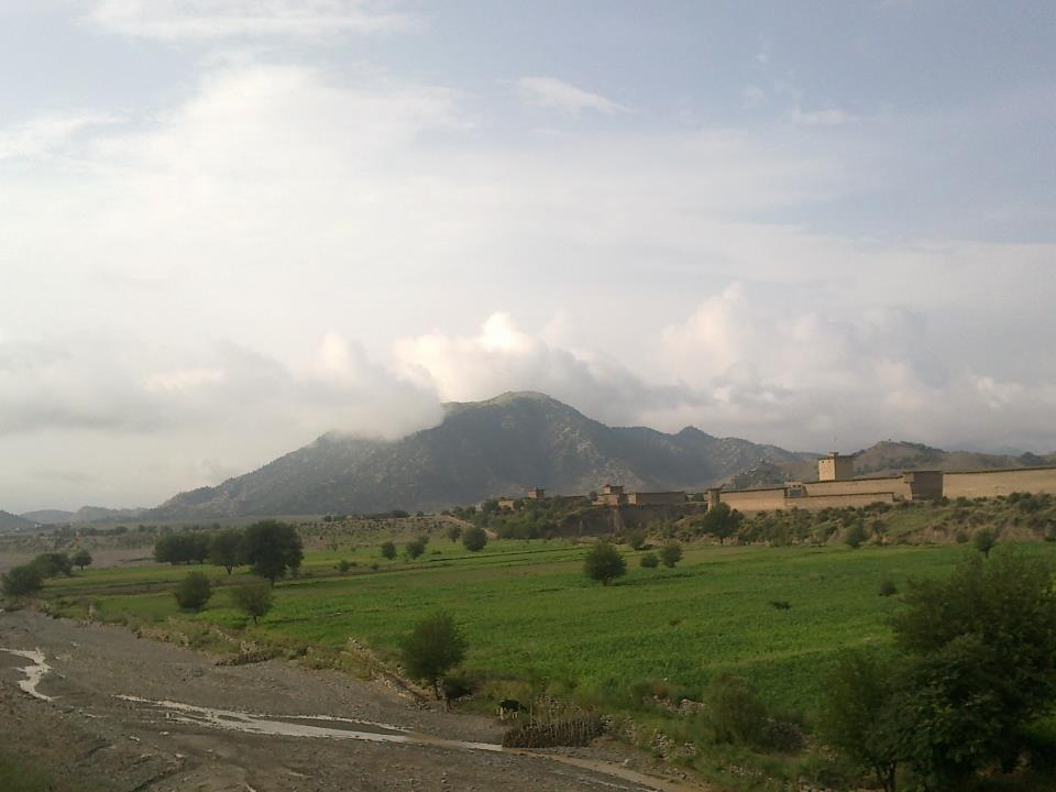 a scene in Waziristan